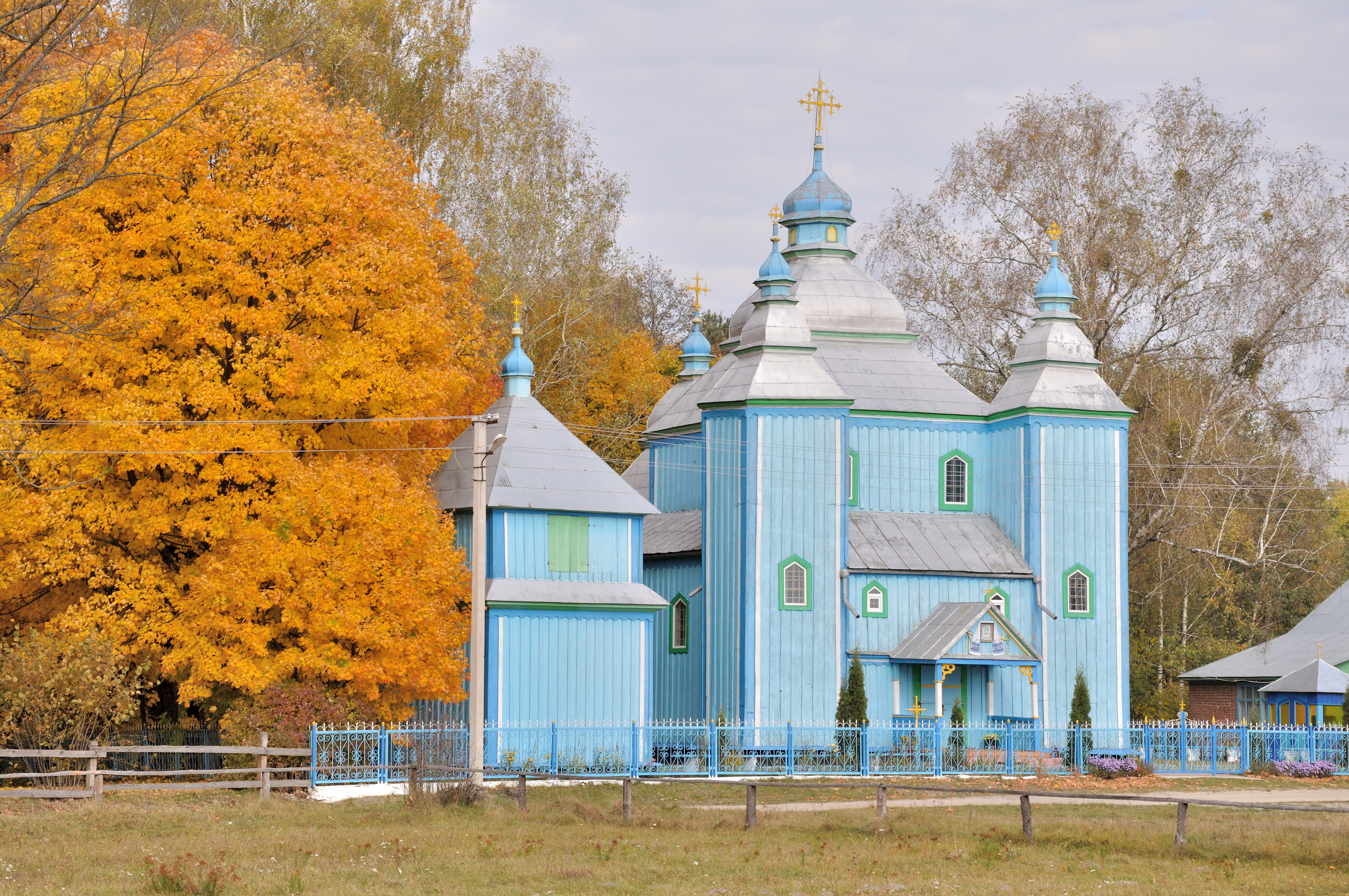 Nativity of the Theotokos Church, Drukhiv, Berezne Raion, Rivne Oblast, Ukraine